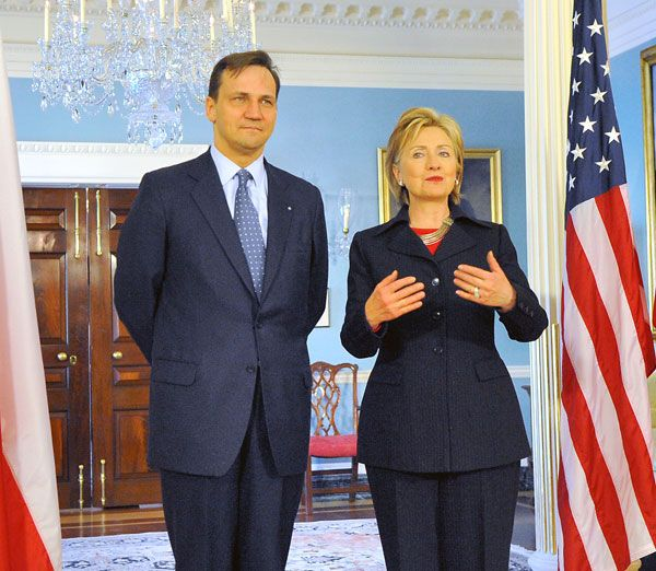 Secretary Clinton meets with His Excellency Radosław Sikorski, Minister of Foreign Affairs of the Republic of Poland.